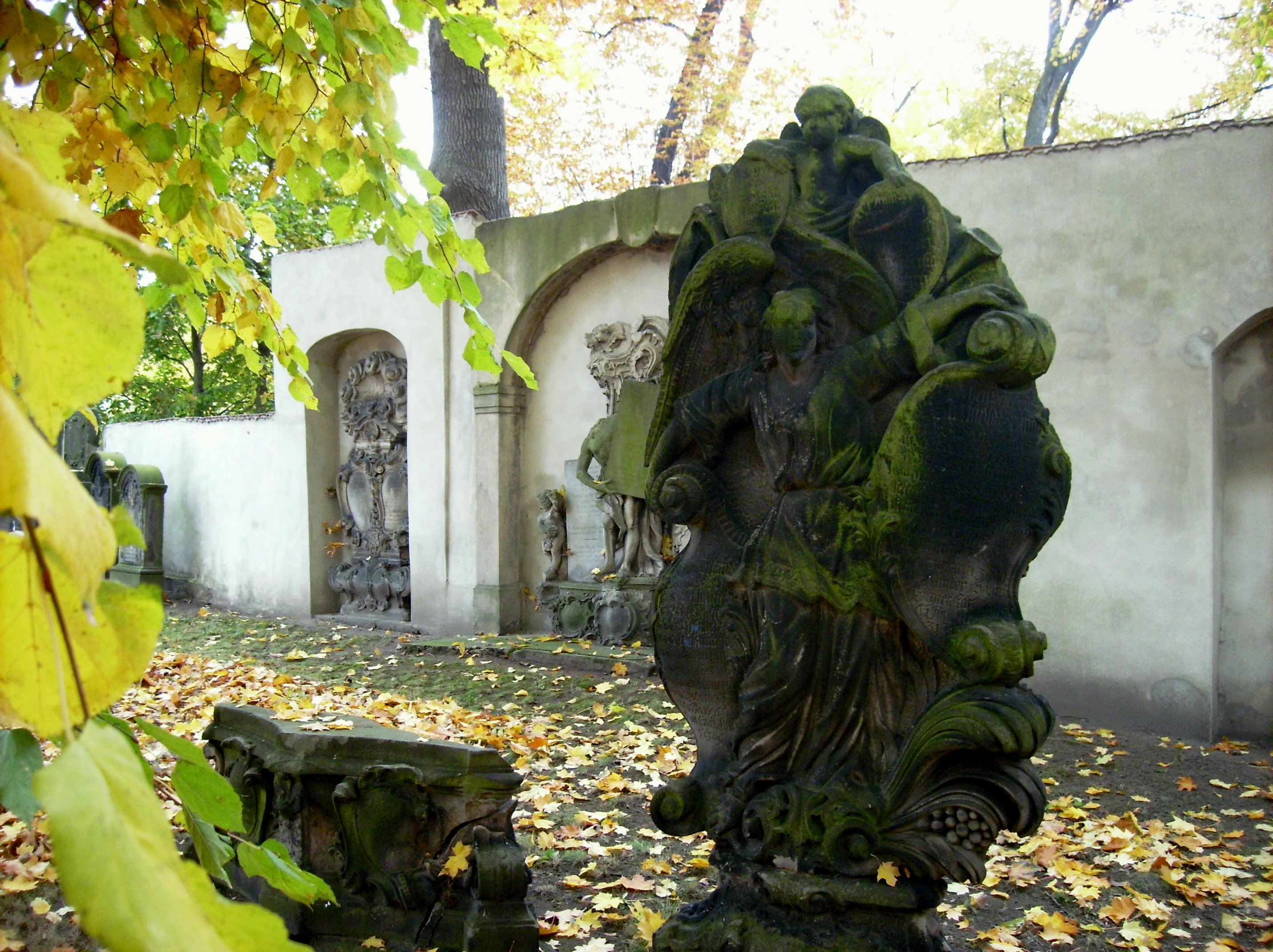 Churchyard of Trinity church (or Weaver's church) in Zittau (Görlitz district, Saxony)